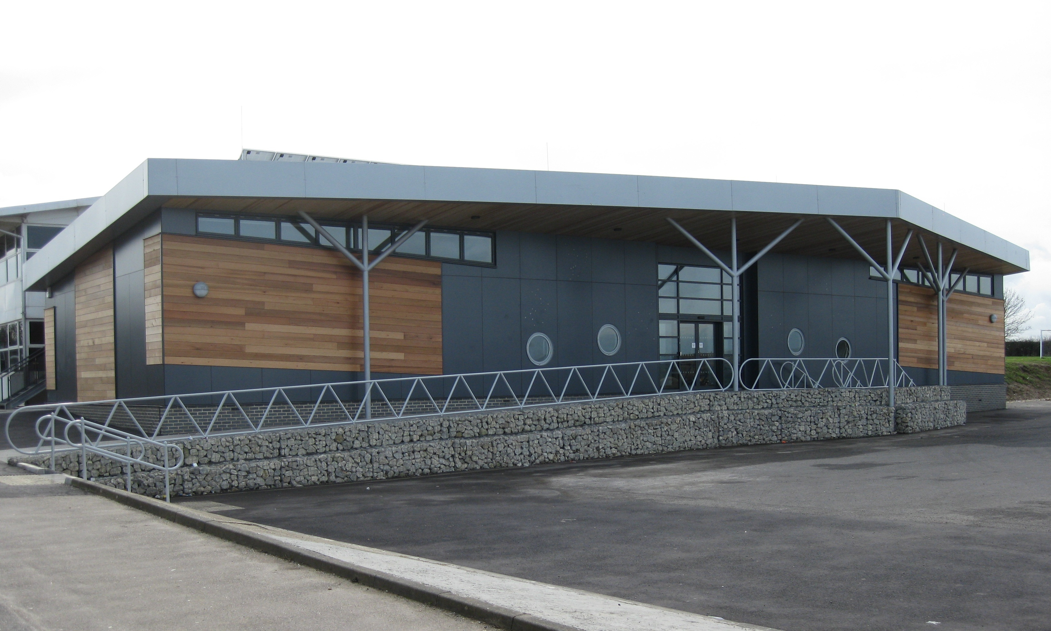 The Langton Star Centre Building